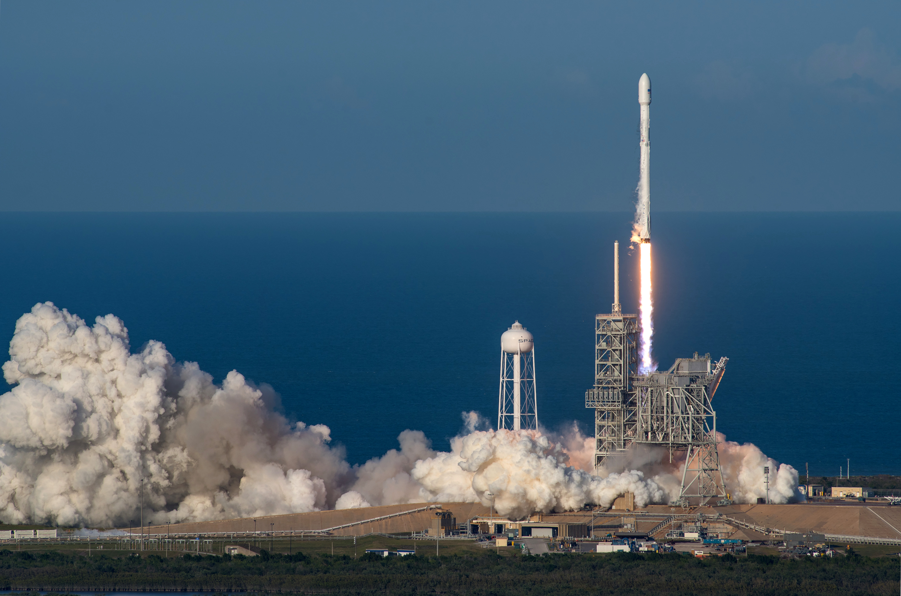 SES-10 Launch by Falcon 9 Flight 32, world's first reflight of an orbital class rocket, from Pad 39A, Kennedy Space Center, Cape Canaveral, Florida.